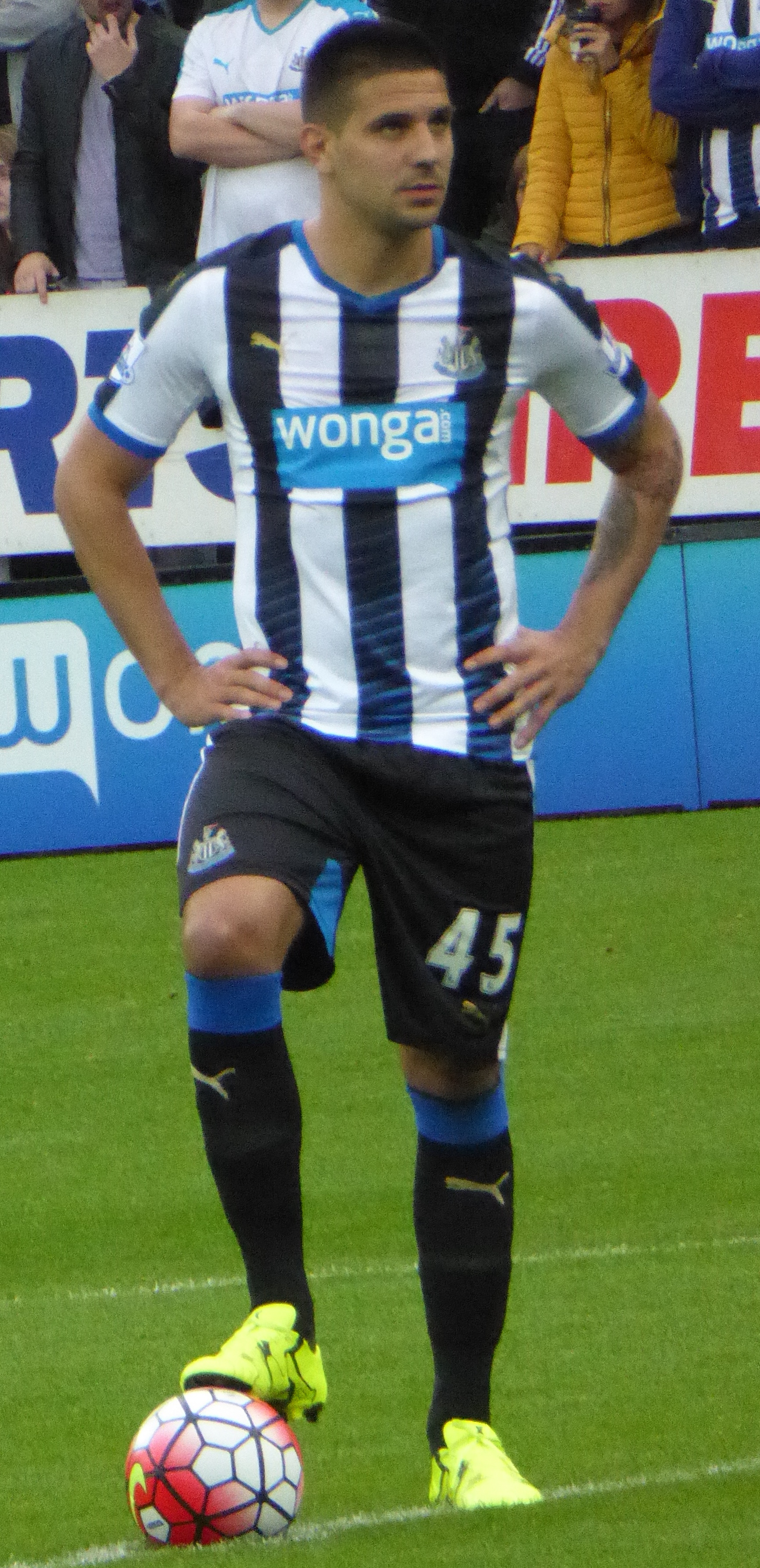 Newcastle United vs Chelsea (2-2), Barclays Premier League, St James' Park, Newcastle upon Tyne, Tyne and Wear, England, September 2015